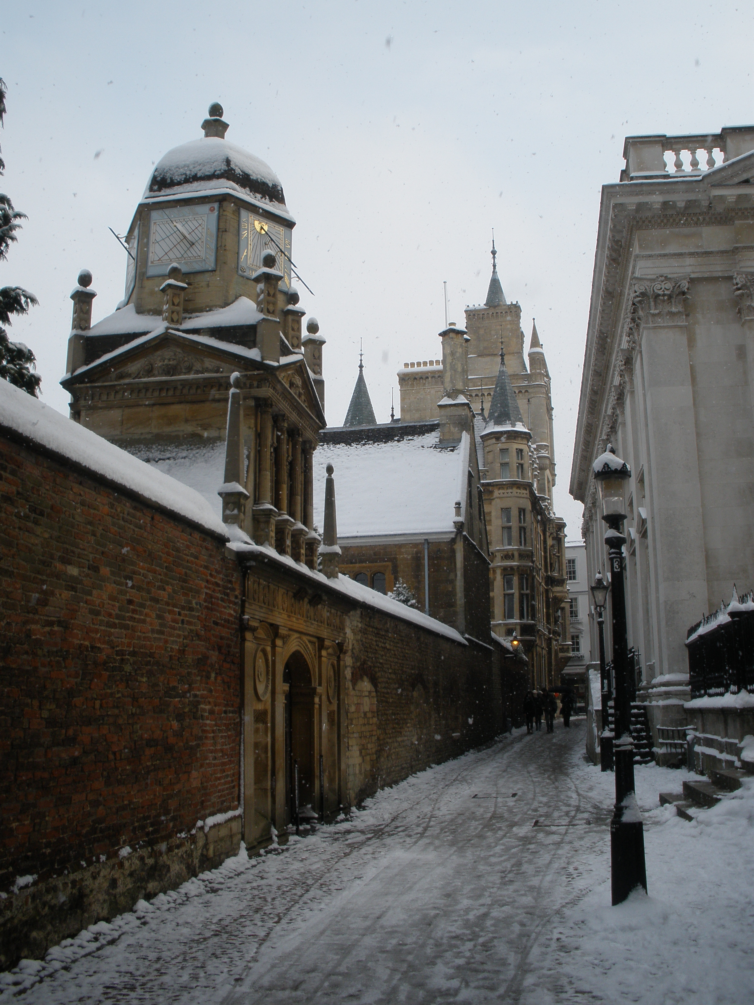 Senate House Passage, Cambridge, England, in snow